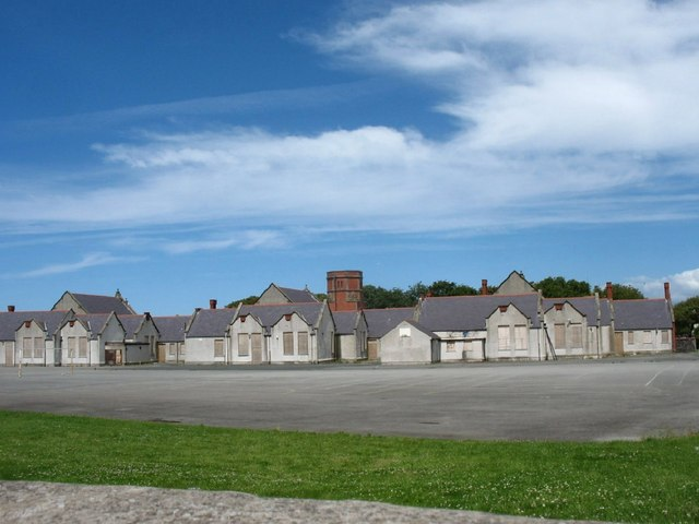 The derelict Ysgol Cybi site Ysgol Cybi was the secondary modern school which was amalgamated with the Holyhead County School (a selective grammar school), situated across the road from it, in 1949. Both sites were used as the comprehenive campus, until the new purpose built comprehensive school was built on the County School site